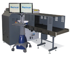 Advanced Technology (AT) X-ray systems provide clearer, more defined images of baggage than current x-rays in use by TSA. TSA has awarded contracts to L3, Smiths Detection and Rapiscan to lease seven AT x-rays from each company to test in airports. Each contract includes an option to purchase up to 500 units pending the results of testing.